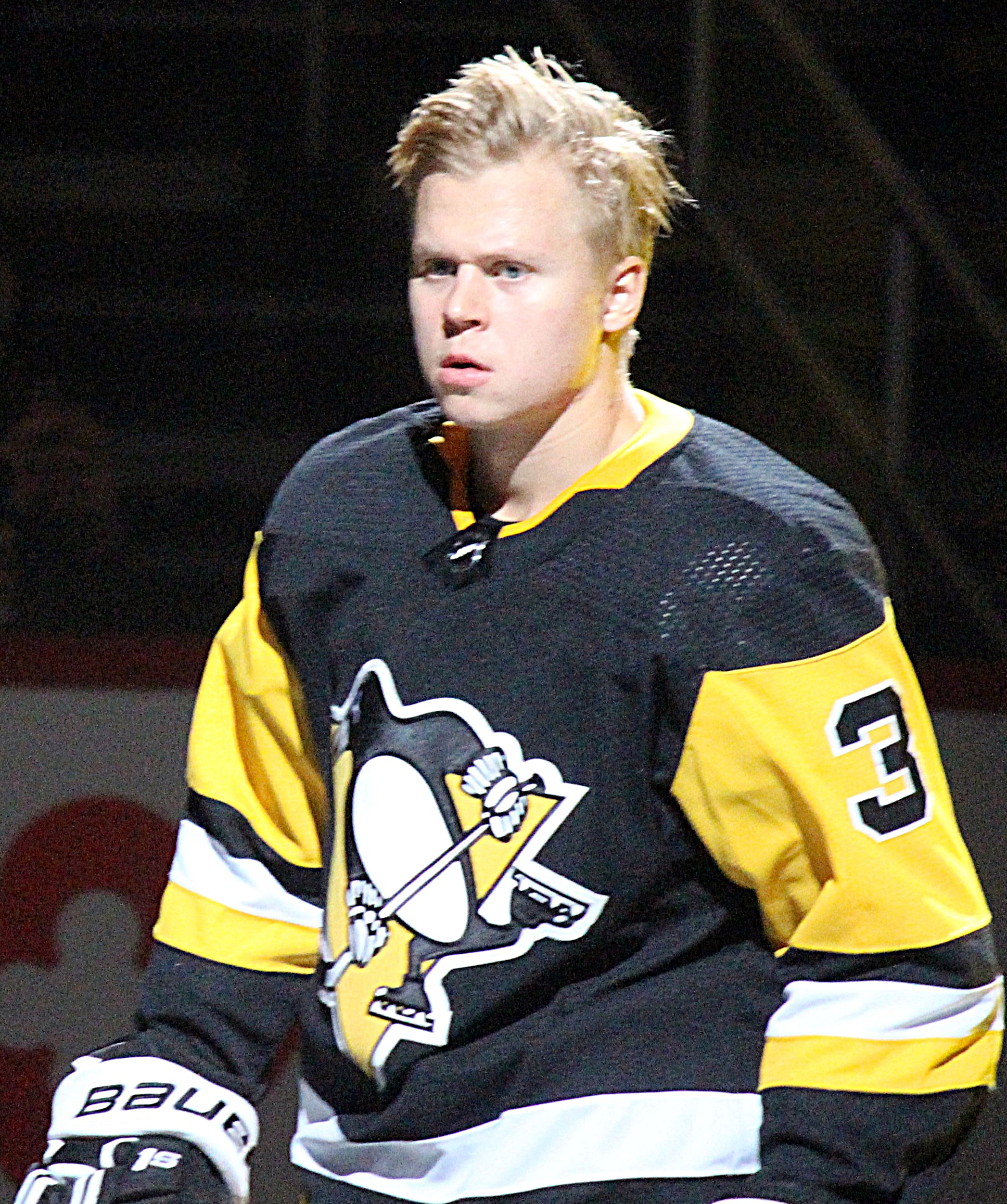 Pittsburgh Penguins defenseman Olli Maatta during a game against the St. Louis Blues, October 4, 2017, at PPG Paints Arena in Pittsburgh, PA.